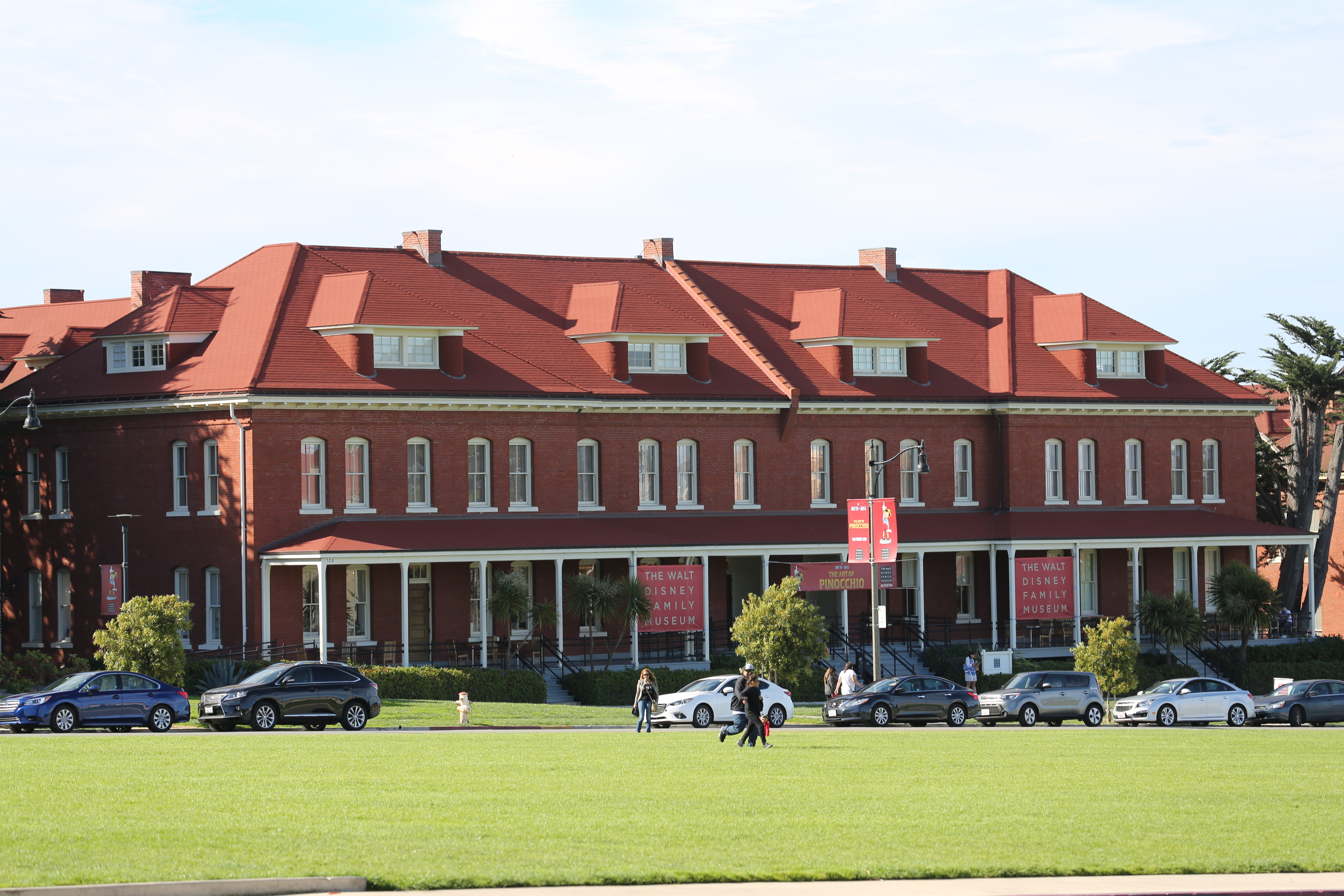 The Walt Disney Family Museum in the Presidio, San Francisco (TK1)